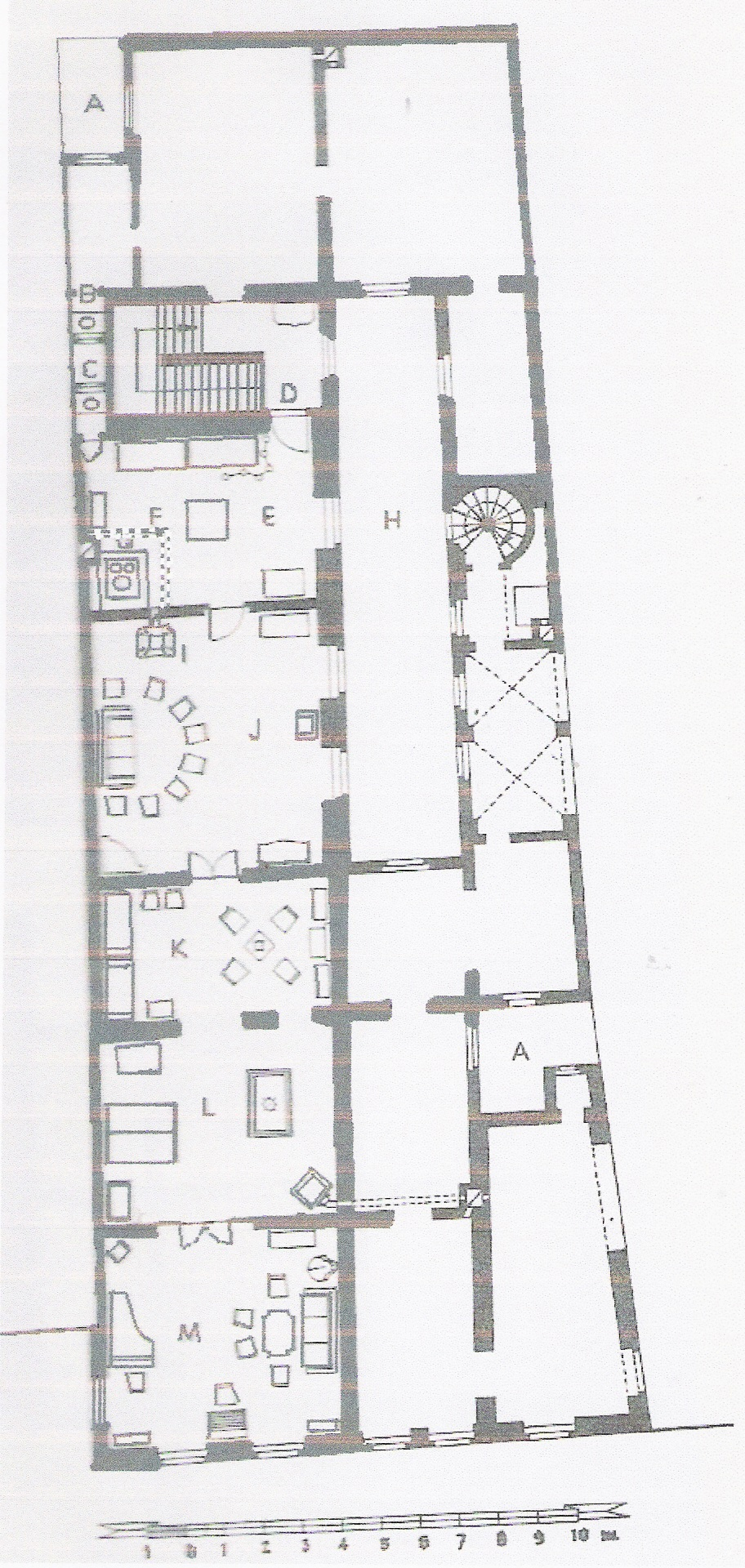 Last Wolfgang Amadeus Mozart's flat plan.